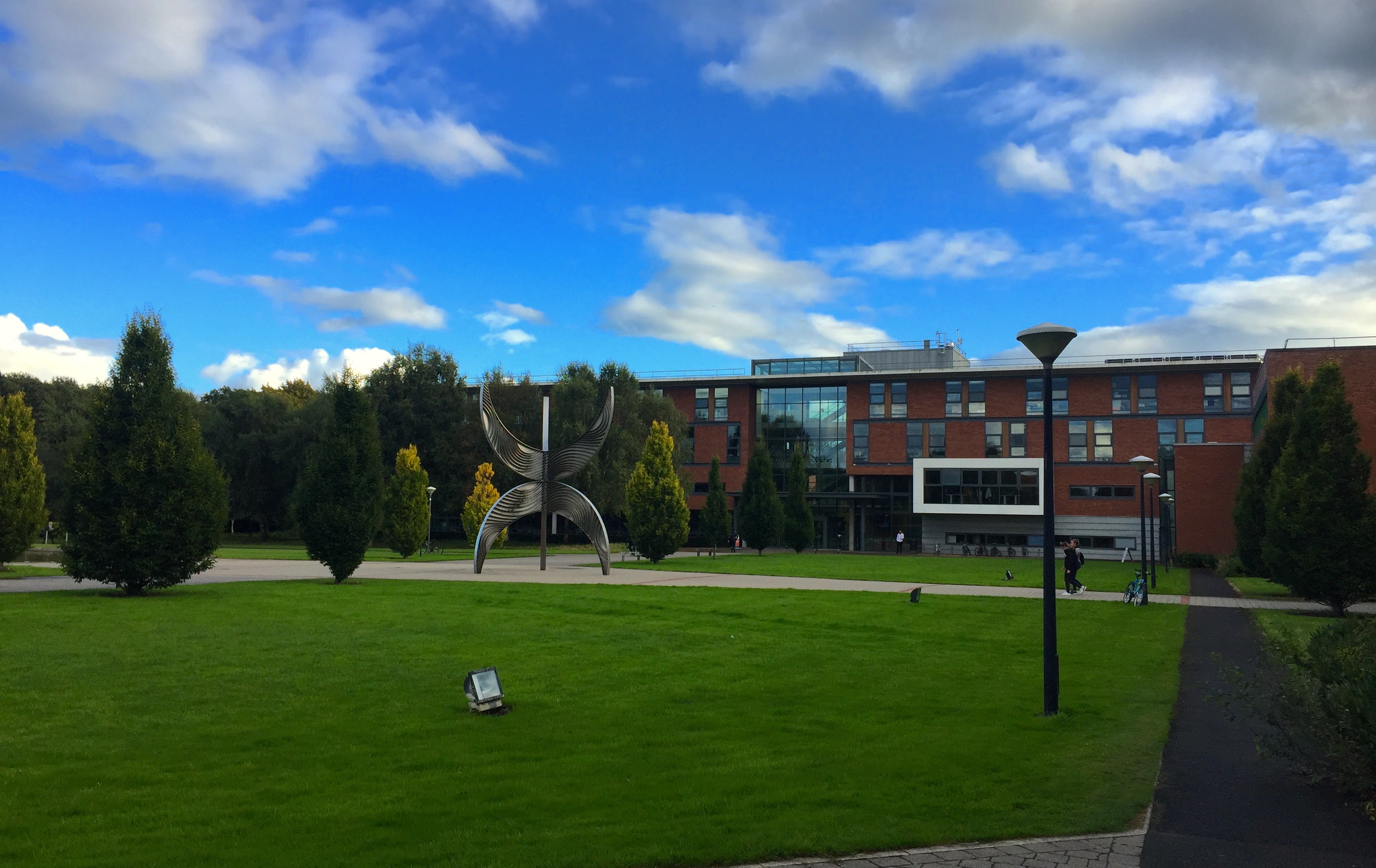 Kemmy Business School (KBS), University of Limerick, Limerick;Other information: Photo by Luke Curley. License: CC-BY-SA 4.0